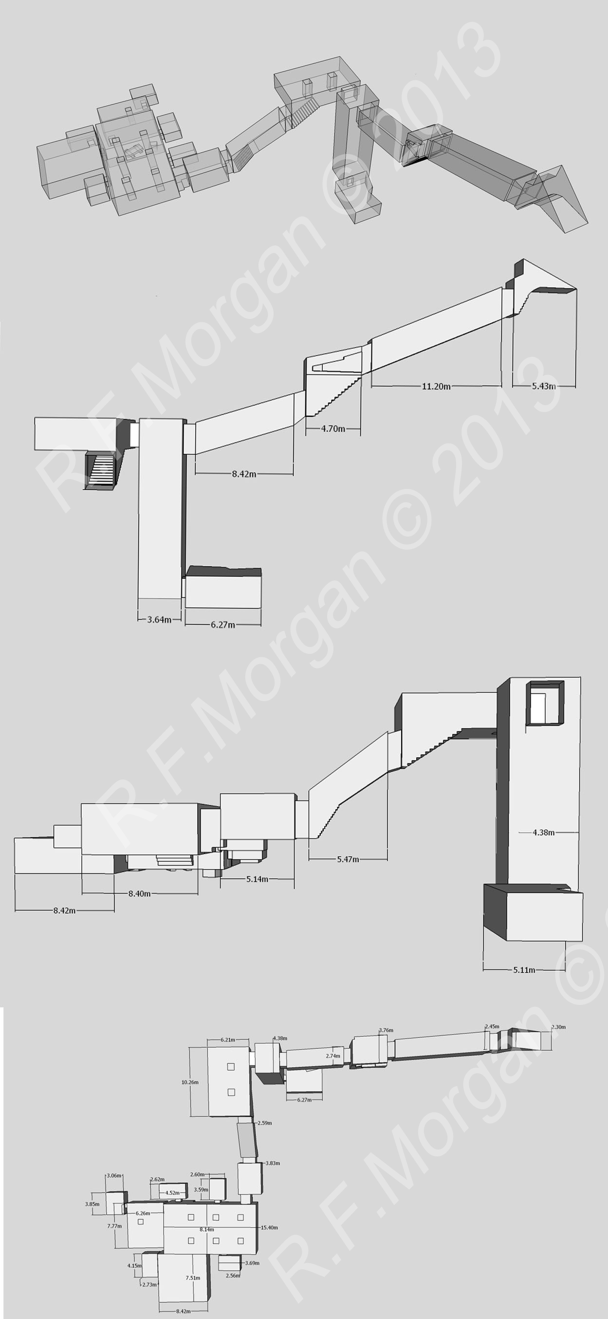 Isometric, plan and elevation images of WV22 taken from a 3d model